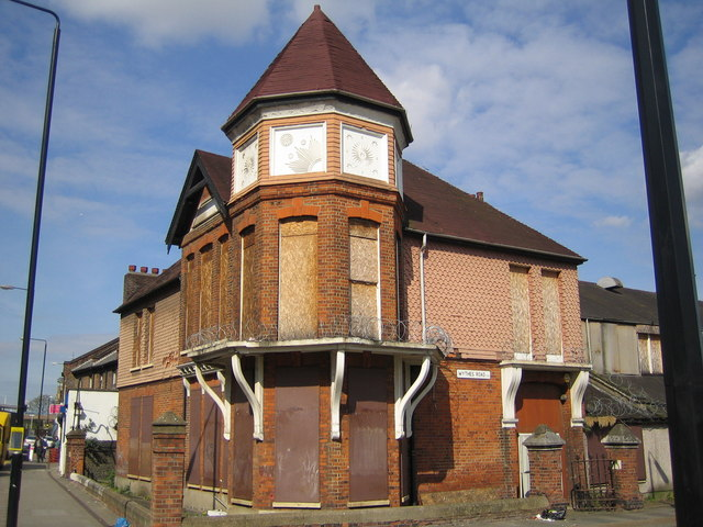 Silvertown: The former Tate Institute Sir Henry Tate (1819-1899) was a philanthropic Victorian sugar magnate. Besides donating his art collection to establish the Tate Gallery 214747, in 1887 he ordered the construction of this sadly neglected little building opposite his Silvertown sugar works for the benefit of his workers. The Institute closed in 1933 and the building was sold to be used as the local library until 1961. It can be found at the junction of Wythes Road with Albert Road. The Tate sugar business merged with the Lyle organization to form Tate & Lyle in 1921.